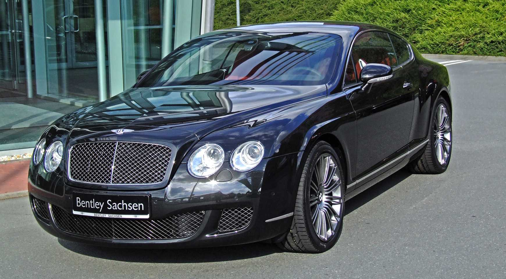 bentley I